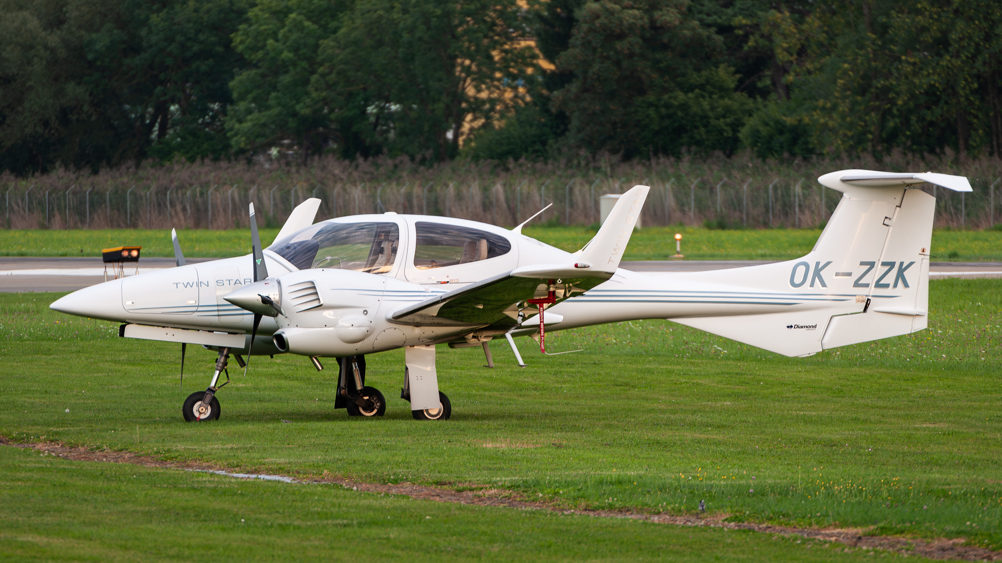 Diamond DA-42 Twin Star (OK-ZZK, cn 42.121) at St. Gallen-Altenrhein Airport (LSZR)